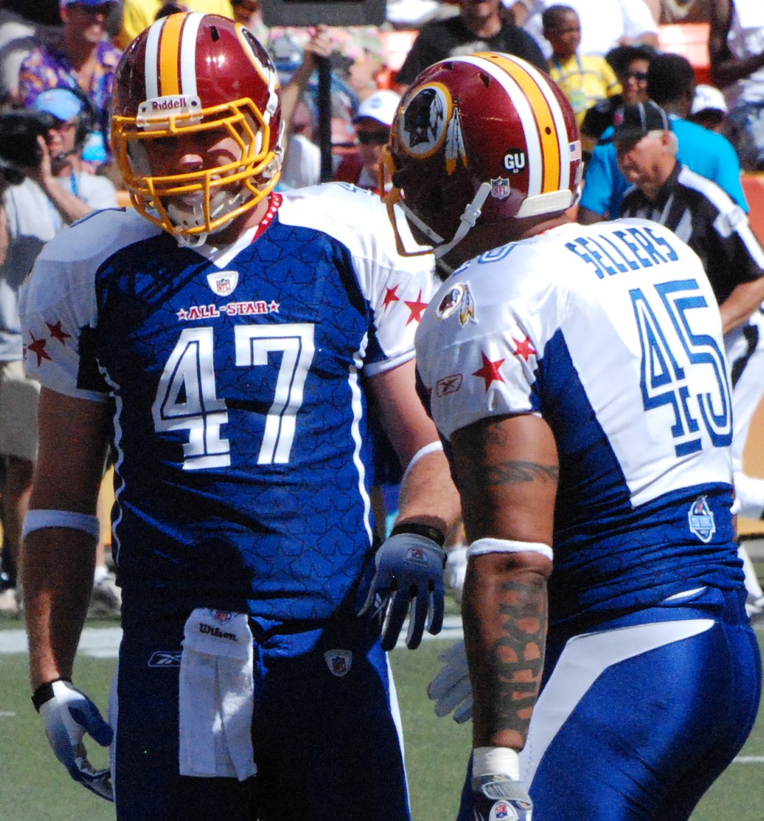 Chris Cooley and Mike Sellers playing in the 2009 Pro Bowl.